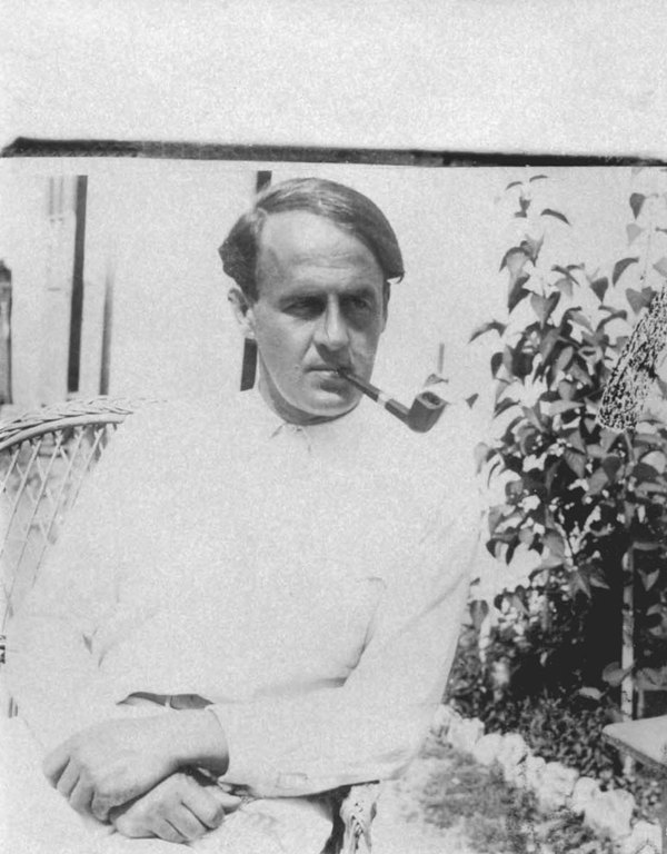 Doctor Mladen Stojanović